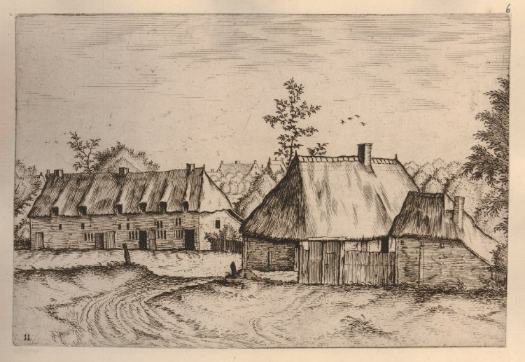 Master of the Small Landscapes, Landscape with view of a village; a thatched cottage at right, a row of houses in left background, etching probably by Johannes or Lucas van Doetechum, published by Hieronymus Cock in 1559 - 1561 in Antwerp, eleventh plate from a series of forty-eight numbered etchings, h 131 mm × w 195 mm, The British Museum